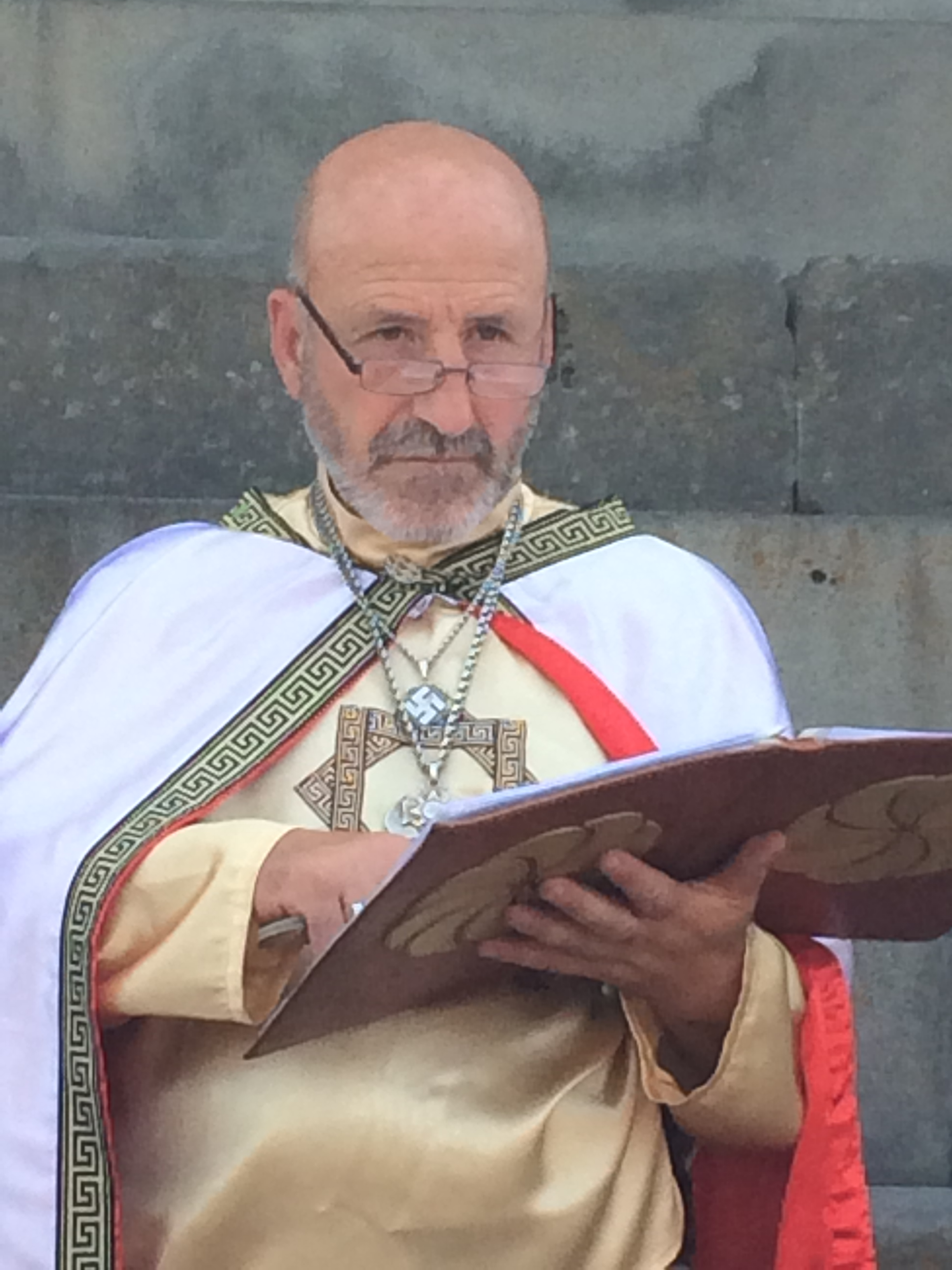 Hetan priest officiating ceremony at the Garni Temple, Armenia.